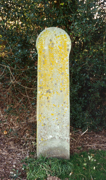 Memorial stone at the site of the "discovery" of the "fossils" of the Piltdown man.